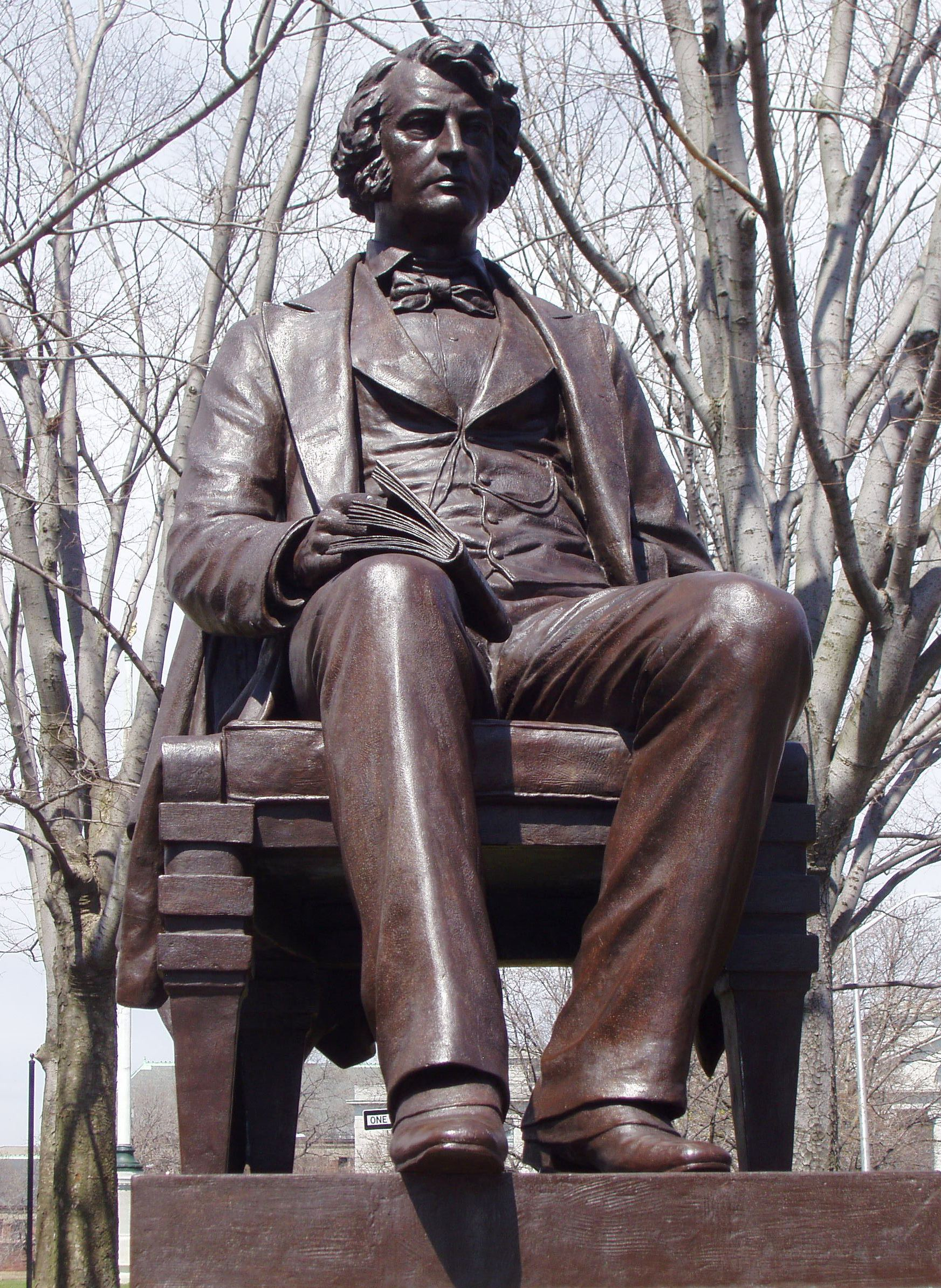 Statue of Charles Sumner in Harvard Square, Cambridge, Massachusetts, USA. This statue was sculpted by Anne Whitney in 1900.